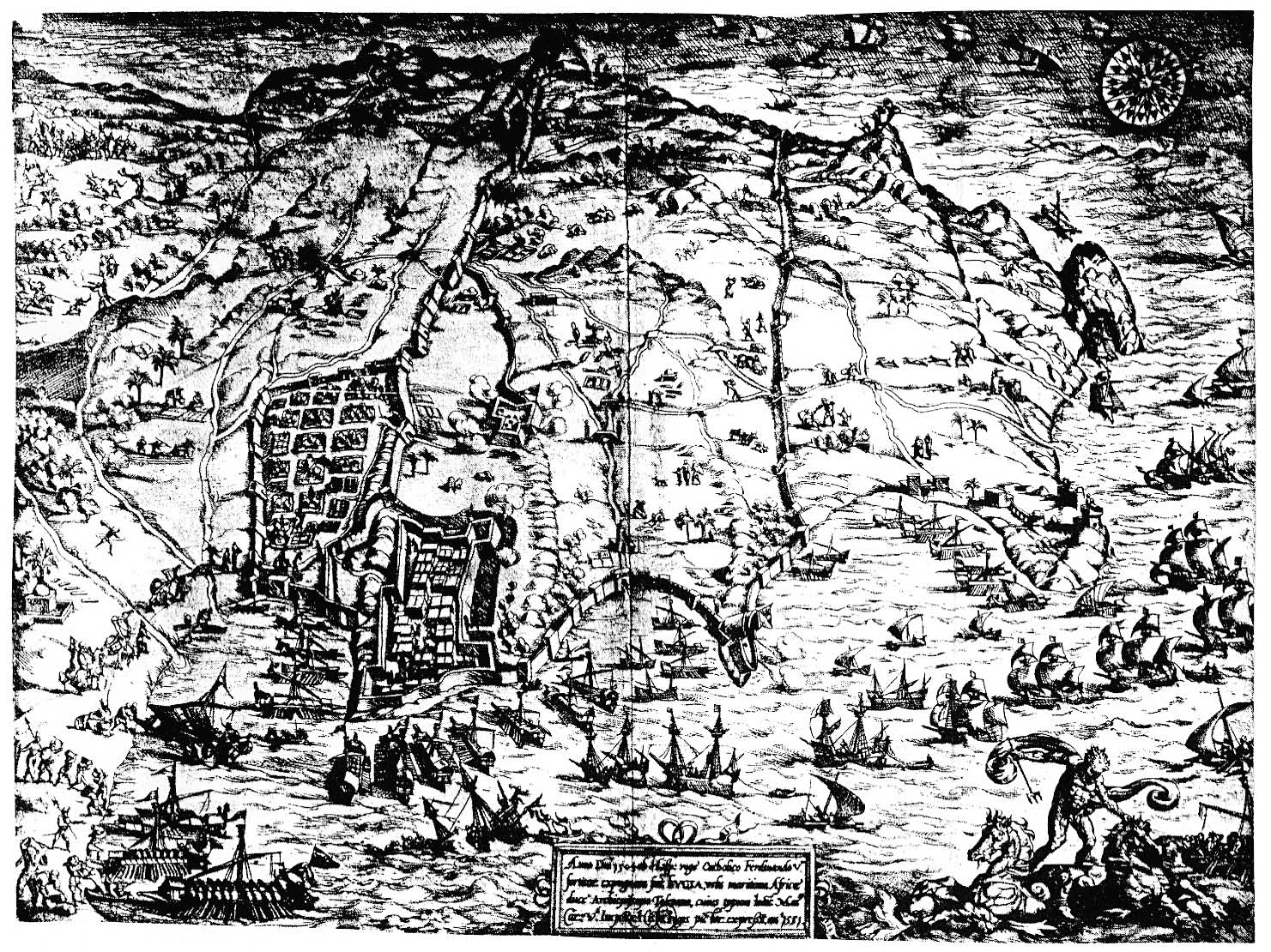 View of Bougie by Jan Vermeyen (1551).